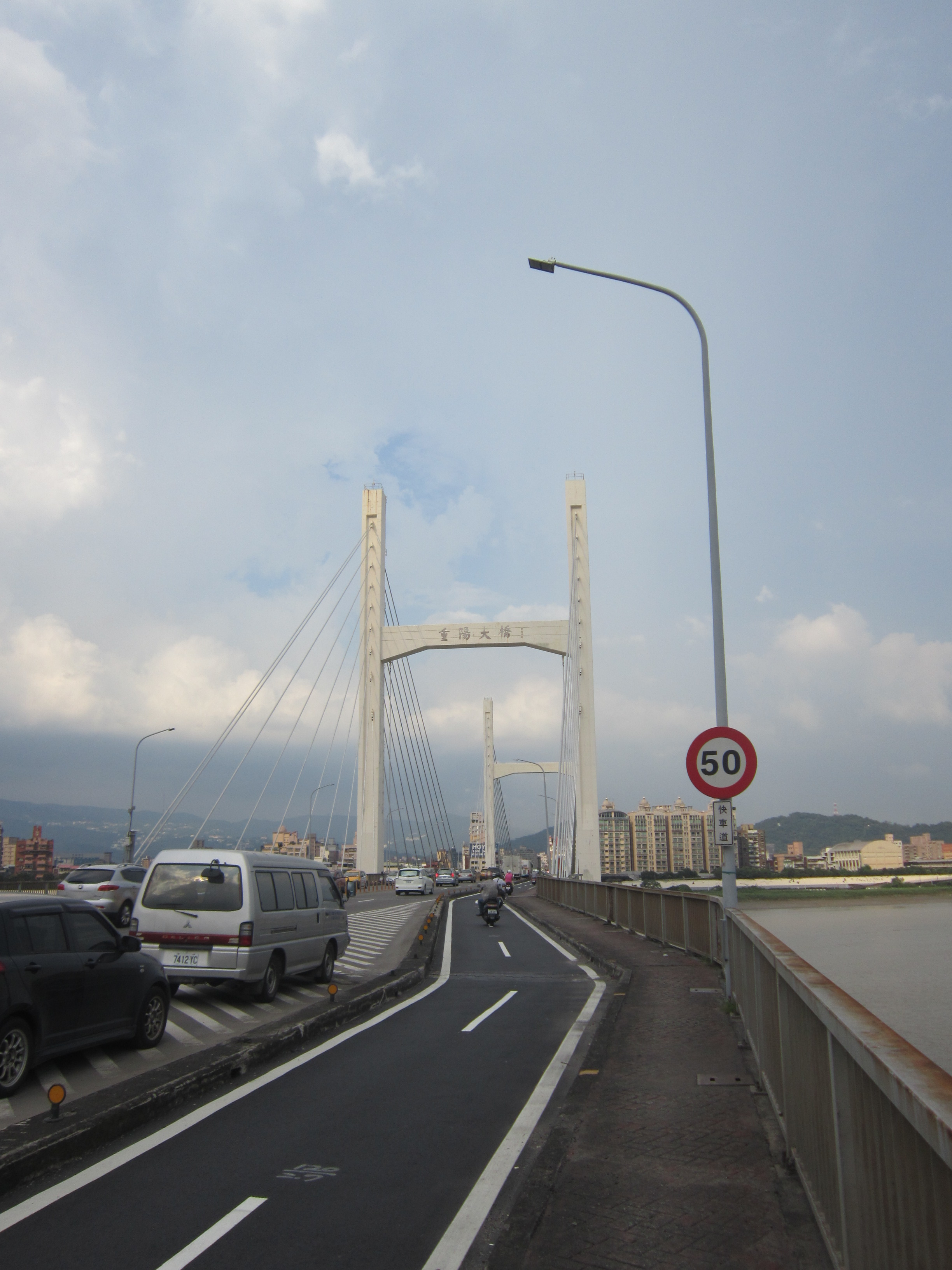 Taipei_Chong_Yang_Bridge